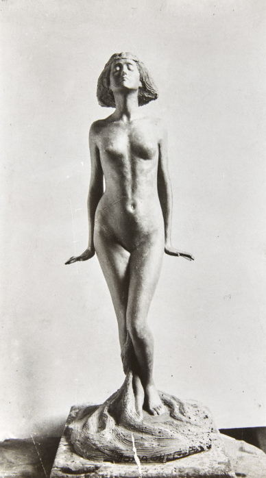 Plaster cast of Le septième voile (c. 1911) by the Australian sculptor Dora Ohlfsen (1869–1948), who lived and worked in Rome for decades. This photograph of the cast was one of a series of photographs taken by her in Rome and sent to her niece, Dora Stanford. Stanford gave it to the Art Gallery of New South Wales, which published it on its website a few years ago. The photograph was not published in Ohlfsen's lifetime. The work itself is lost.